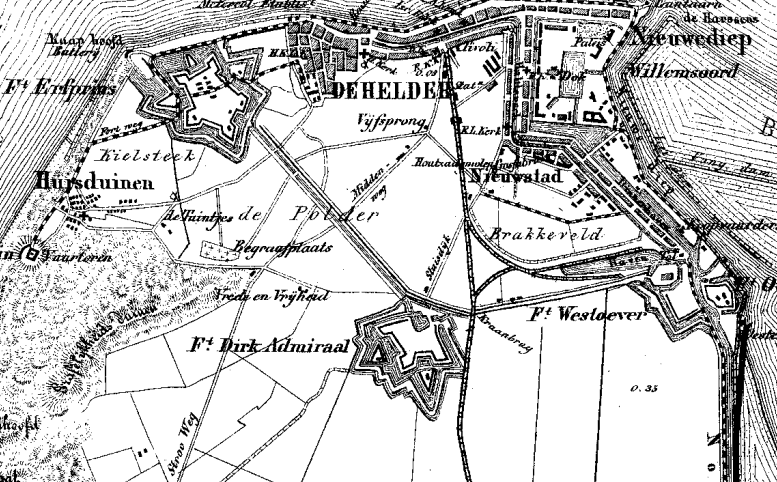 Fort_Dirks_Admiraal, Den Helder, ca 1869